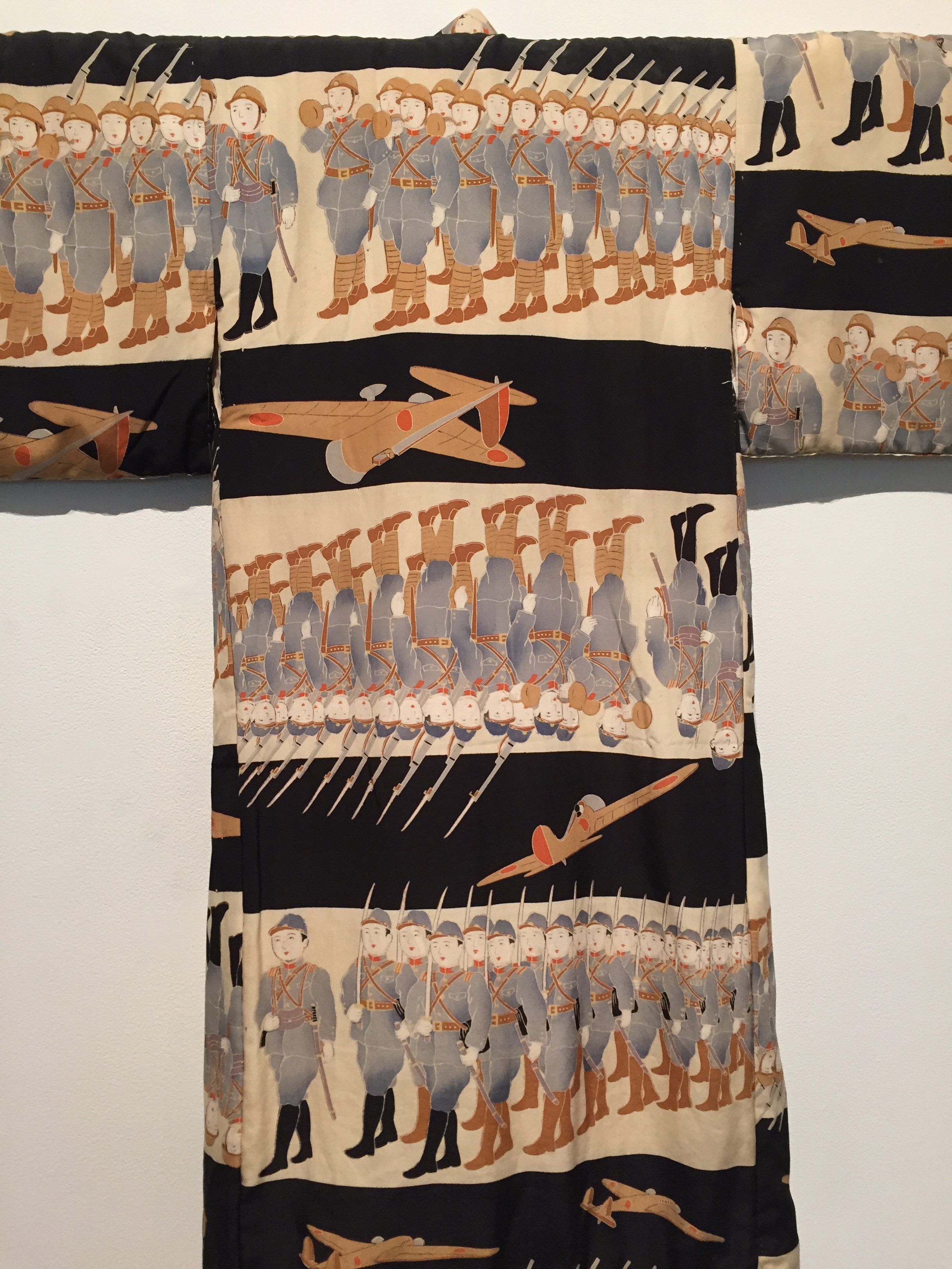 Japanese Propaganda Kimono showing Troops in Formation, Boy’s Kimono, c. 1940, silk, dimensions: 32.5h x 32.75w in-photo-taken by Sam Perkins-2015-10-24 16.27.13. See Wiki article